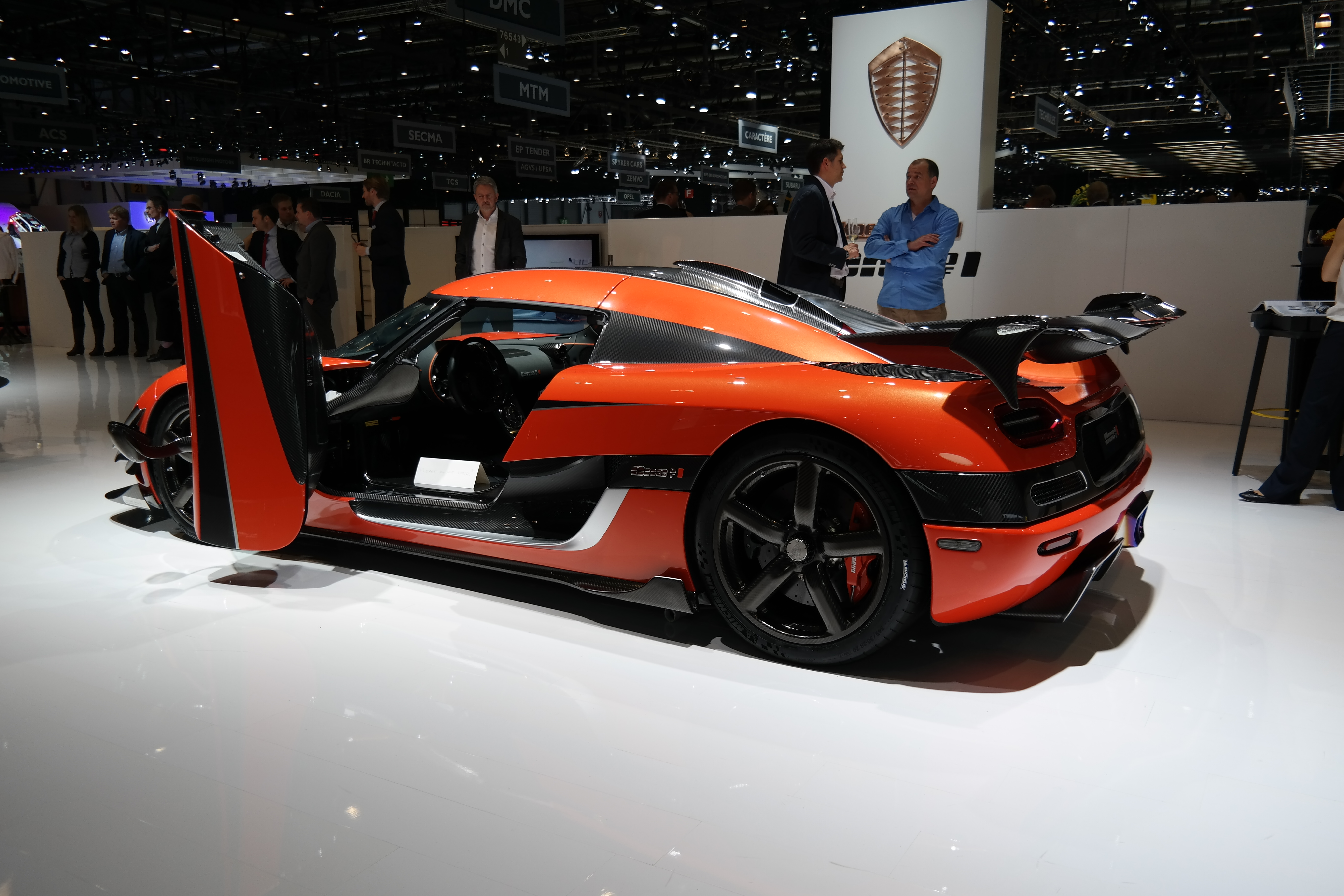 Geneva Motor Show 2016 (photo taken on the first press day)